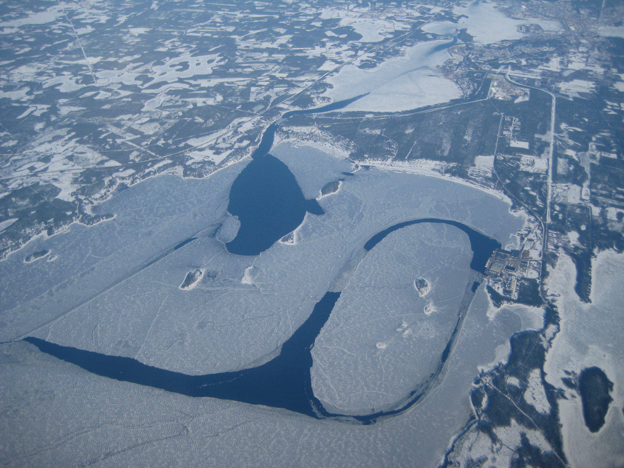 The Gulf of Bothnia near Piteå (Norrbotten County, Sweden)